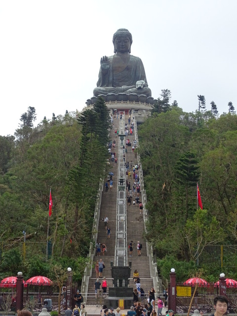 Big buddha